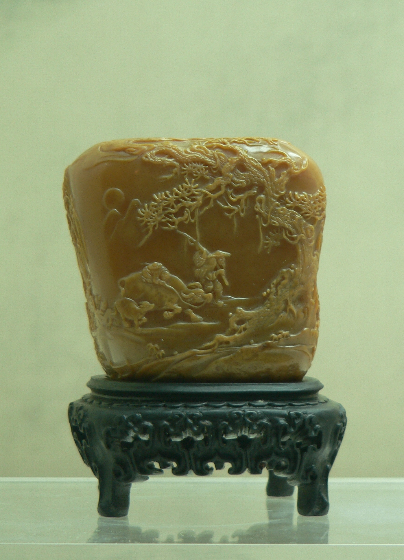 shoushanshi gravure title: “Spring Returns to the Earth”, material: tianhuangshi (Chinese soapstone), artist: Zheng Shibin, location: Beijing Palace Museum, shoushanshi exhibition